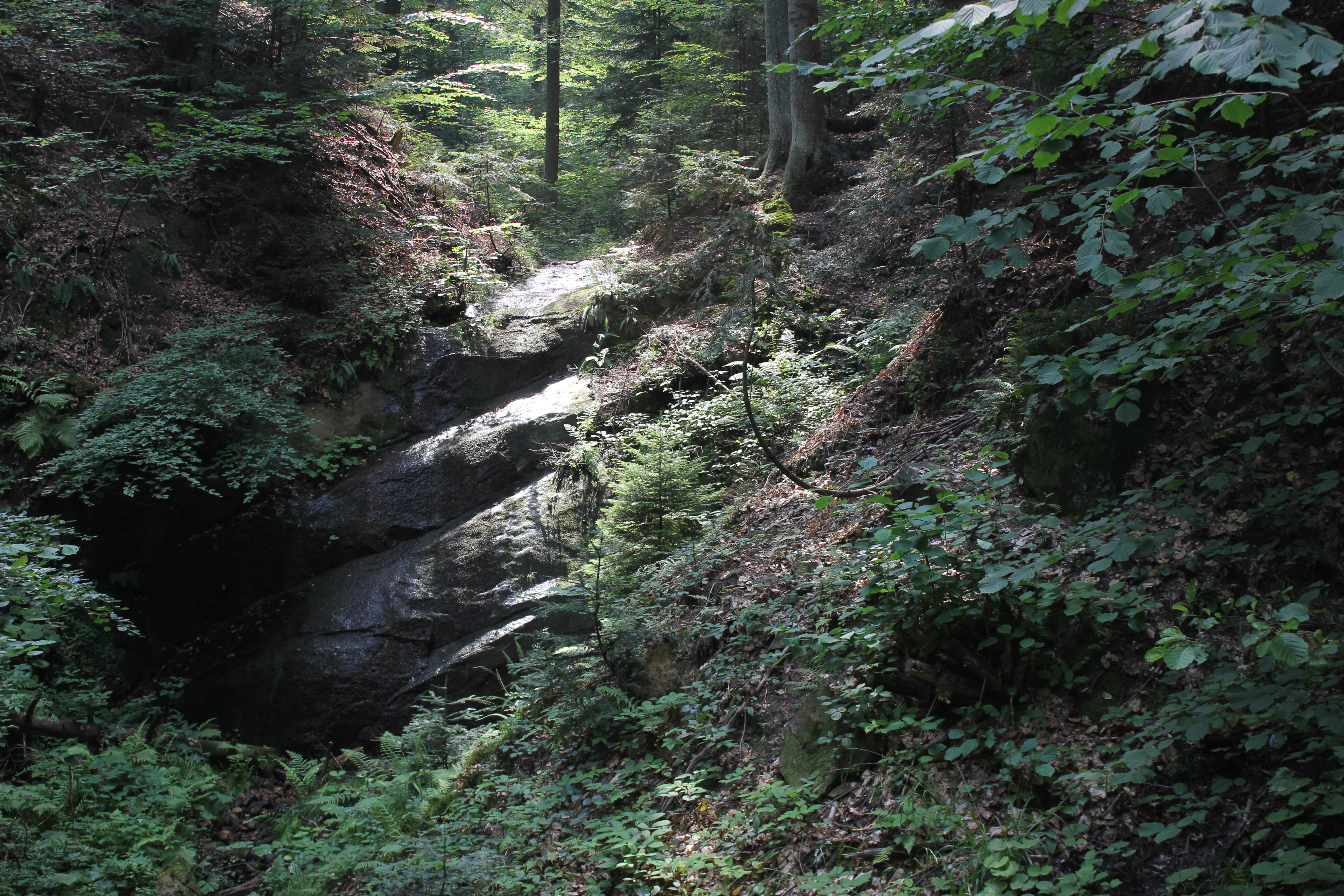 Kombornia - "Three Waters" waterfall - Czarnorzeki-Strzyżów Landscape Park